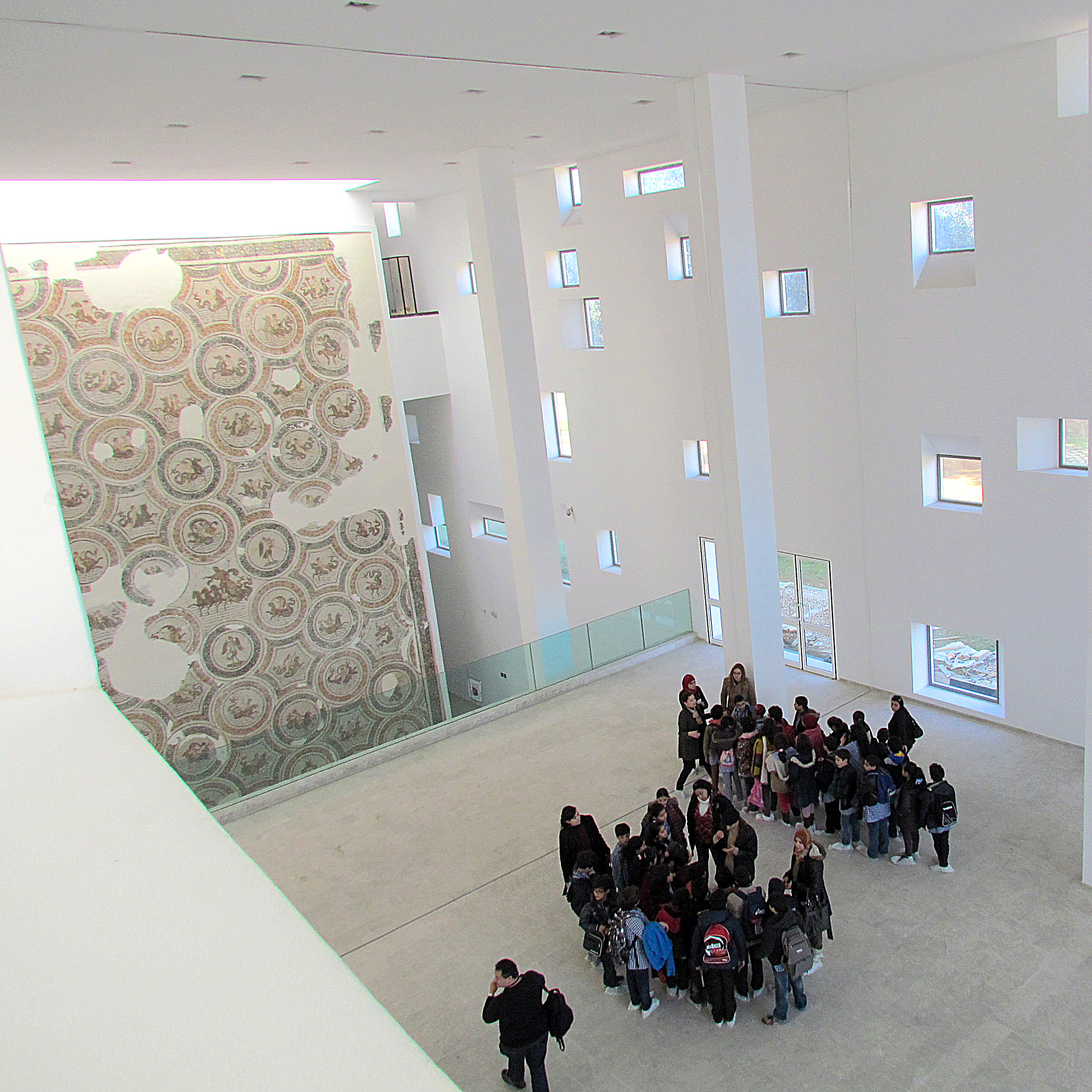 Triumph of Neptune mosaic (Bardo Museum)